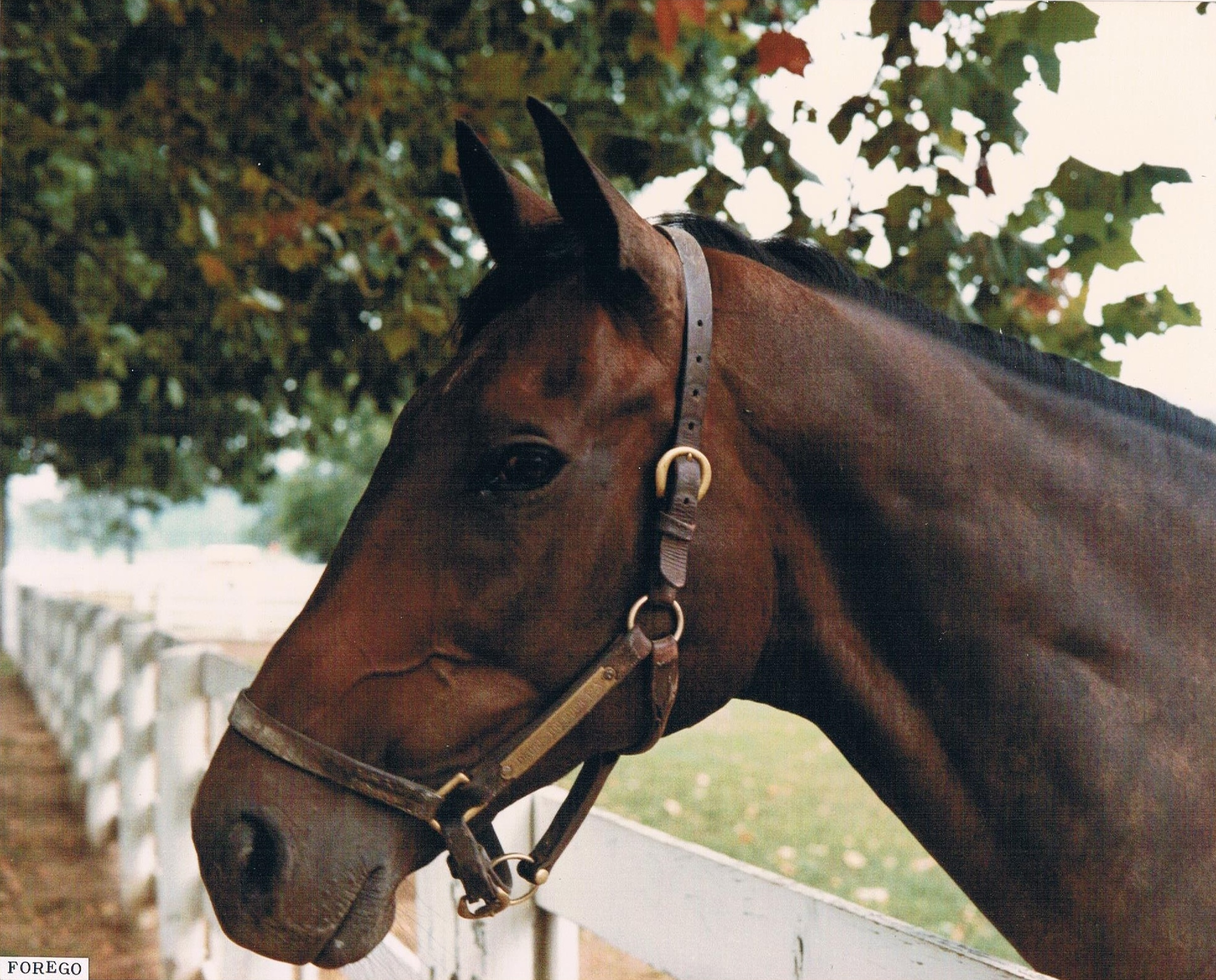 Photo of Forego taken at the Kentucky Horse Park in 1981